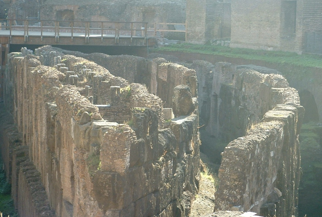 The hypogeum at the Colosseum.